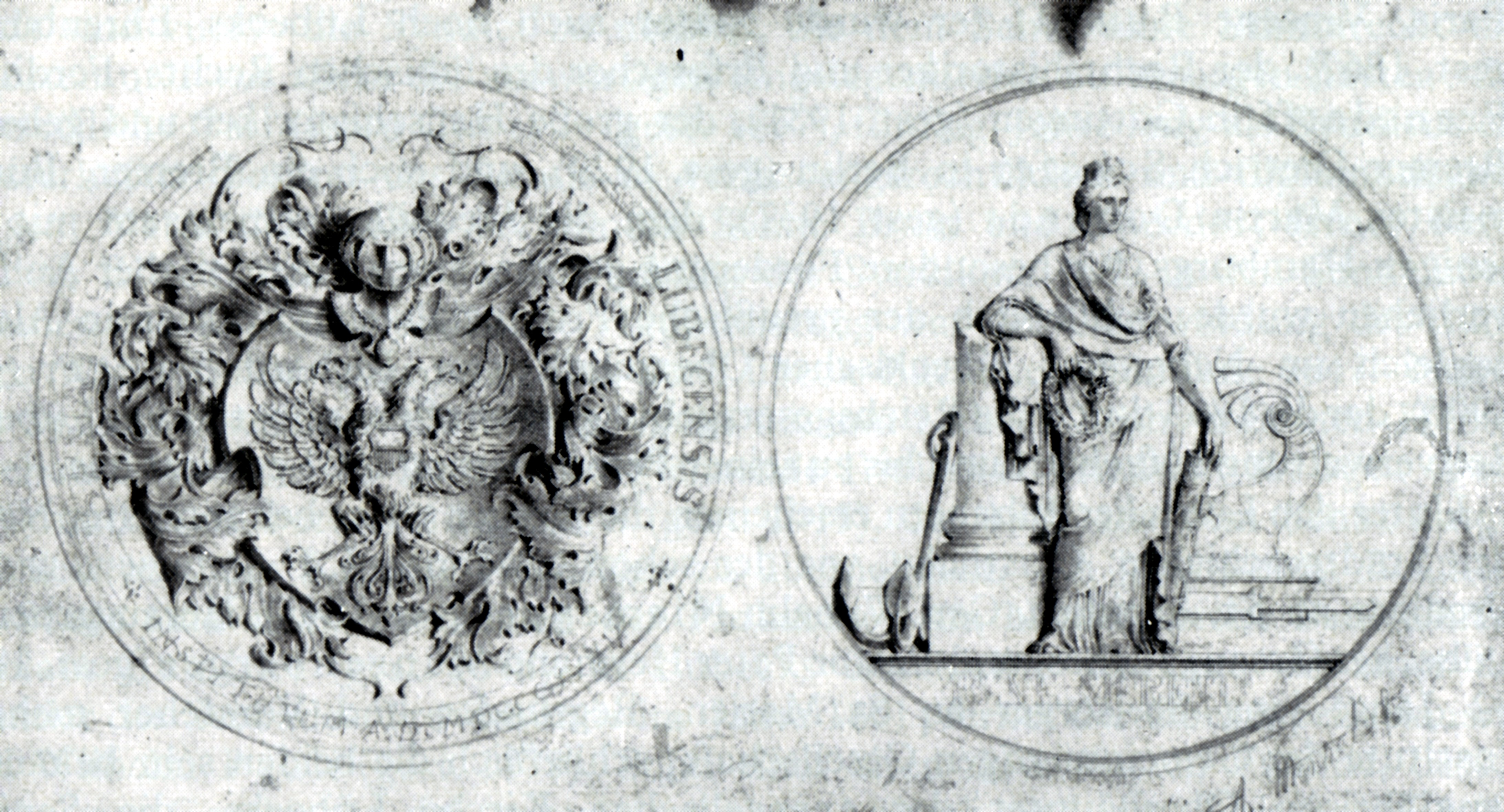 Final design of the hororary medal Gedenkmünze Bene Merenti of the Hanseatic City of Lübeck